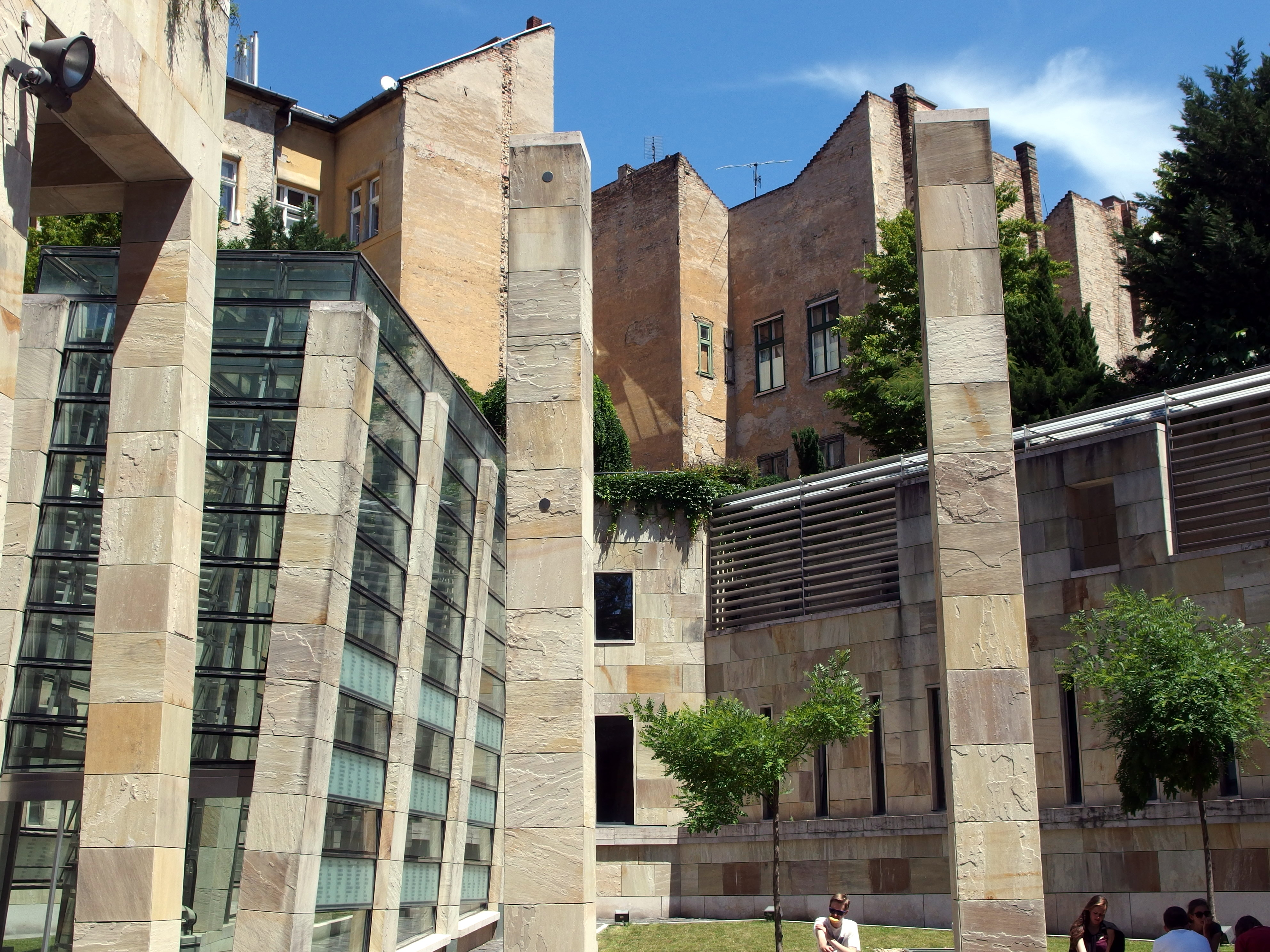 2013-06-13 in Budapest